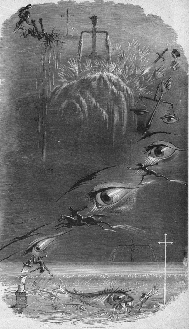 "A Dream of Crime & Punishment", engraving by J.J. Grandville. As reproduced in "Harper's Magazine" shortly after Grandville's death in 1847. "It is the dream of an assasin overcome by remorse"